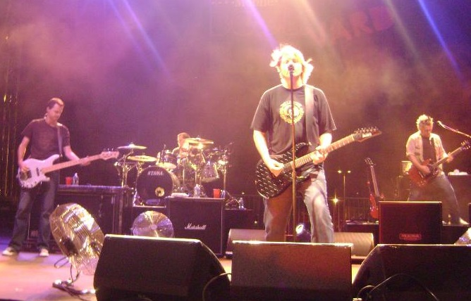 The Offspring Live @ Charlotte, NC 20-09-2008